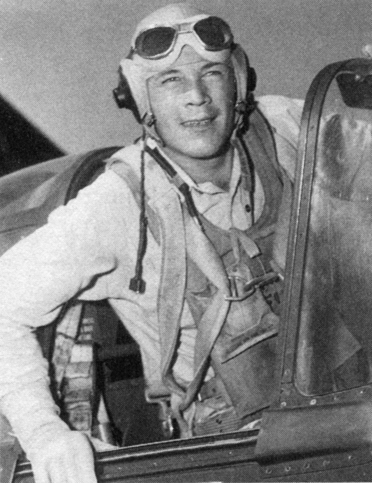 Wayne Morris